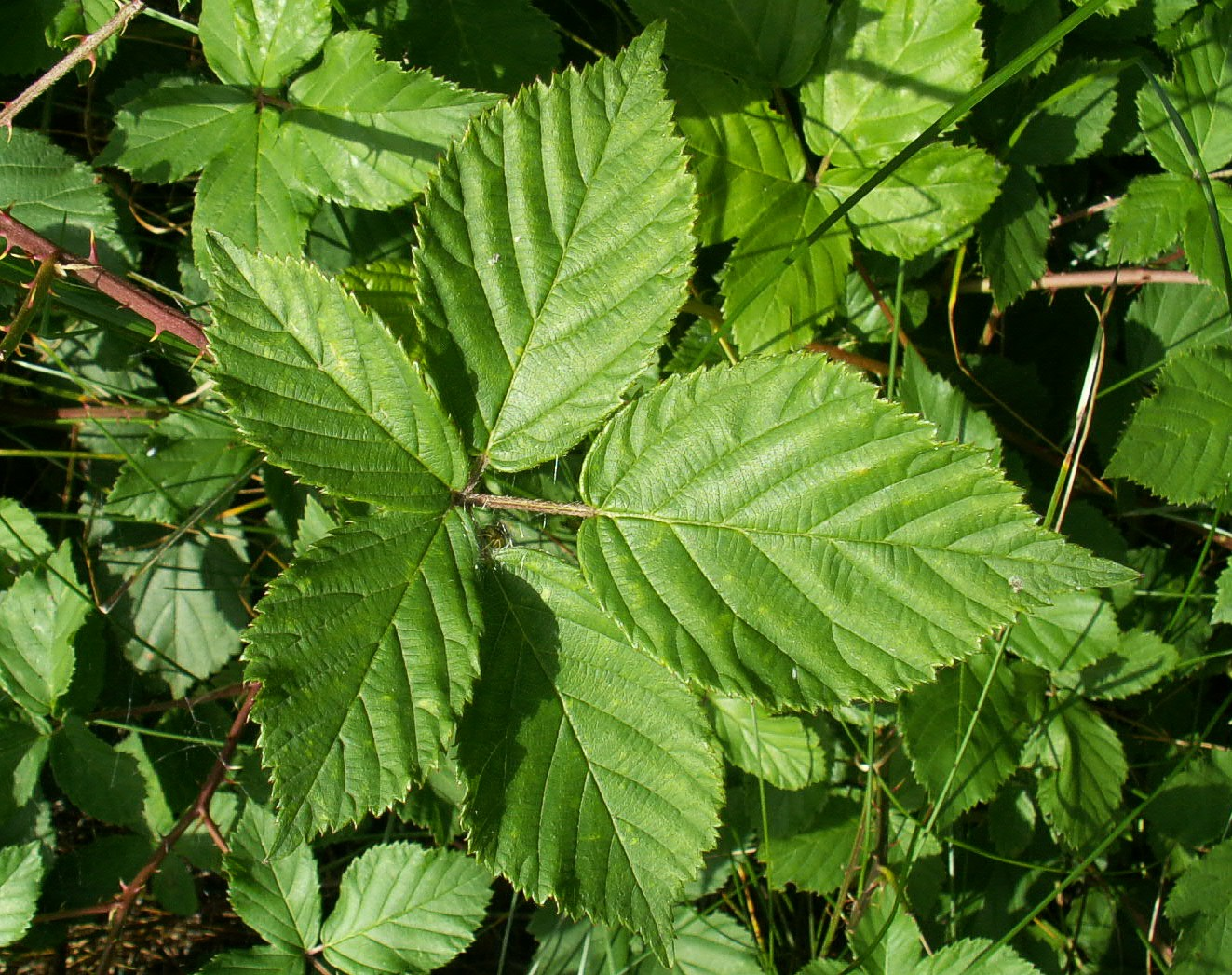 Leaf of Rubus plicatus. Goleniów, NW Poland